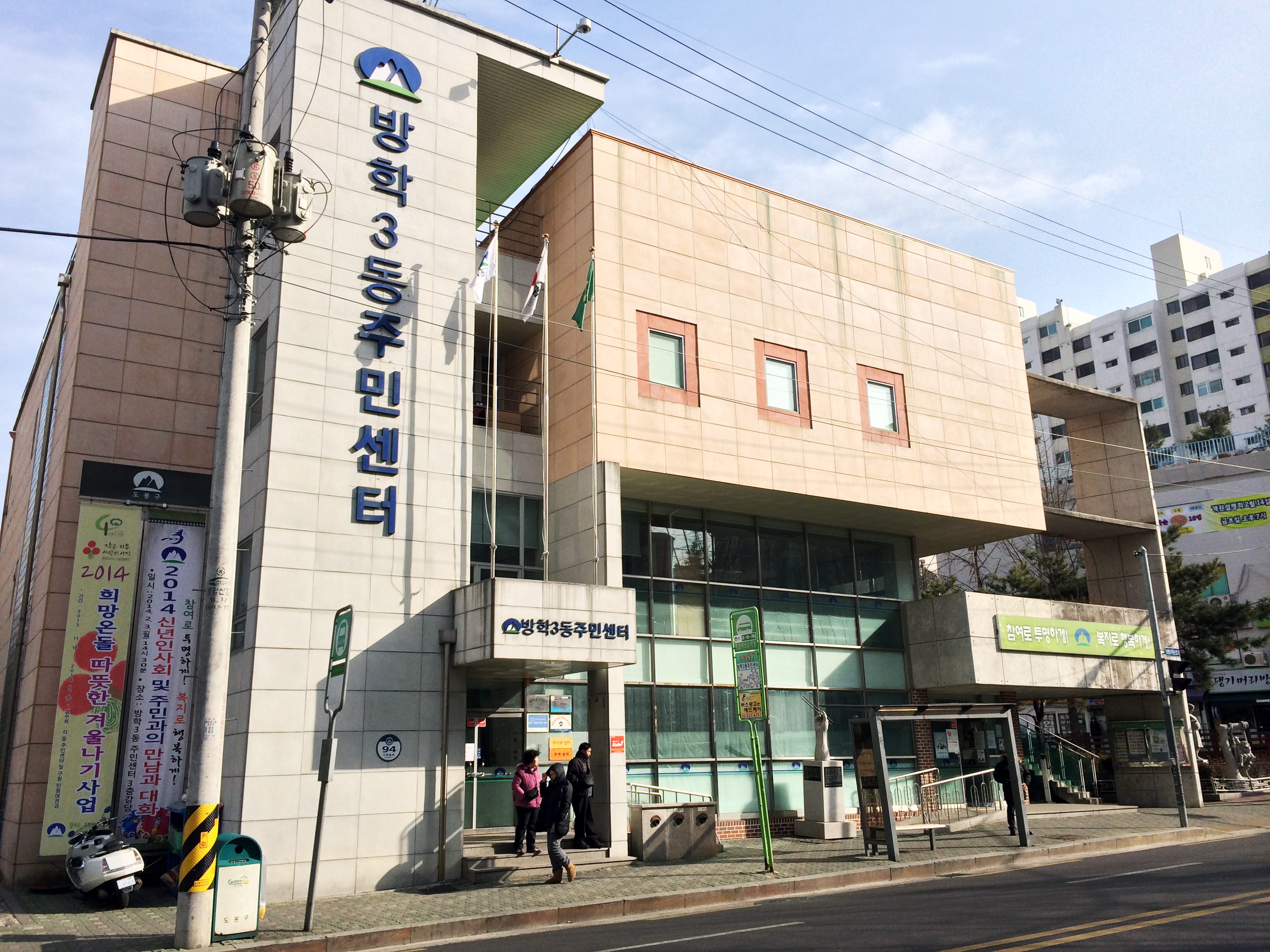 Banghak 3-dong Community Service Center (Dobong-gu)